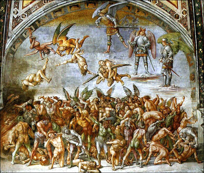 Hell in a painting by Luca Signorelli